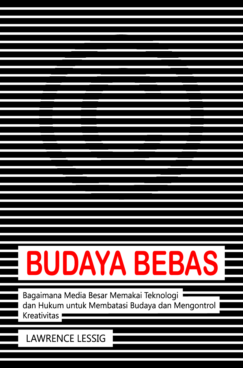 The cover of Indonesian version Free Culture Book by Lawrence Lessig